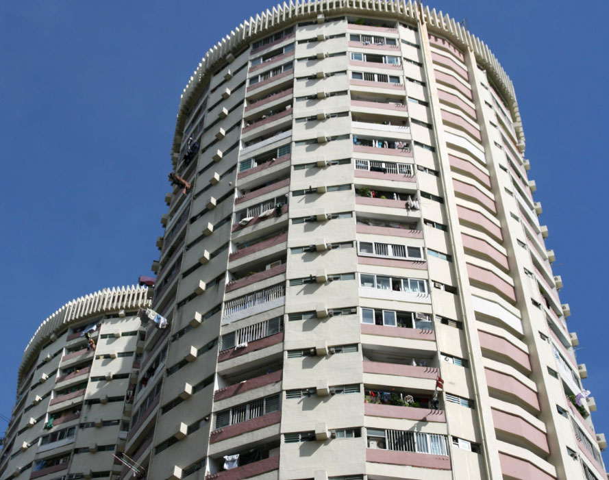 大坑勵德邨藝術攝影